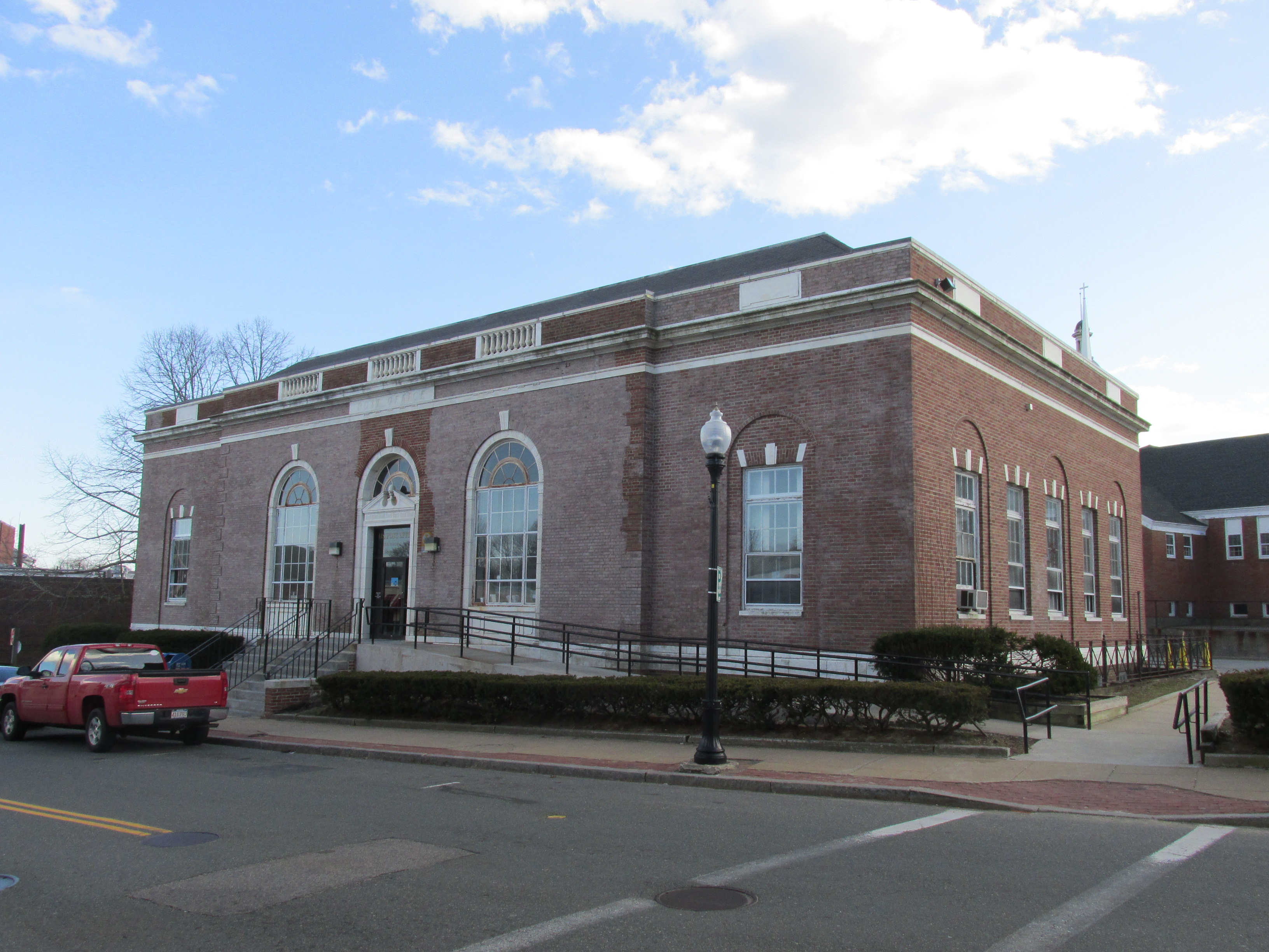 Post Office, Middleborough Massachusetts - MACRIS Listing